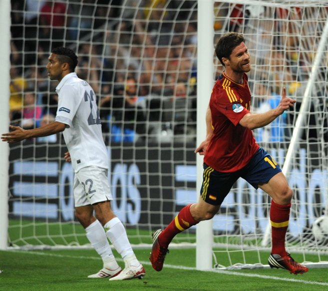 Xabi Alonso first goal celebration at Euro 2012 match Spain-France